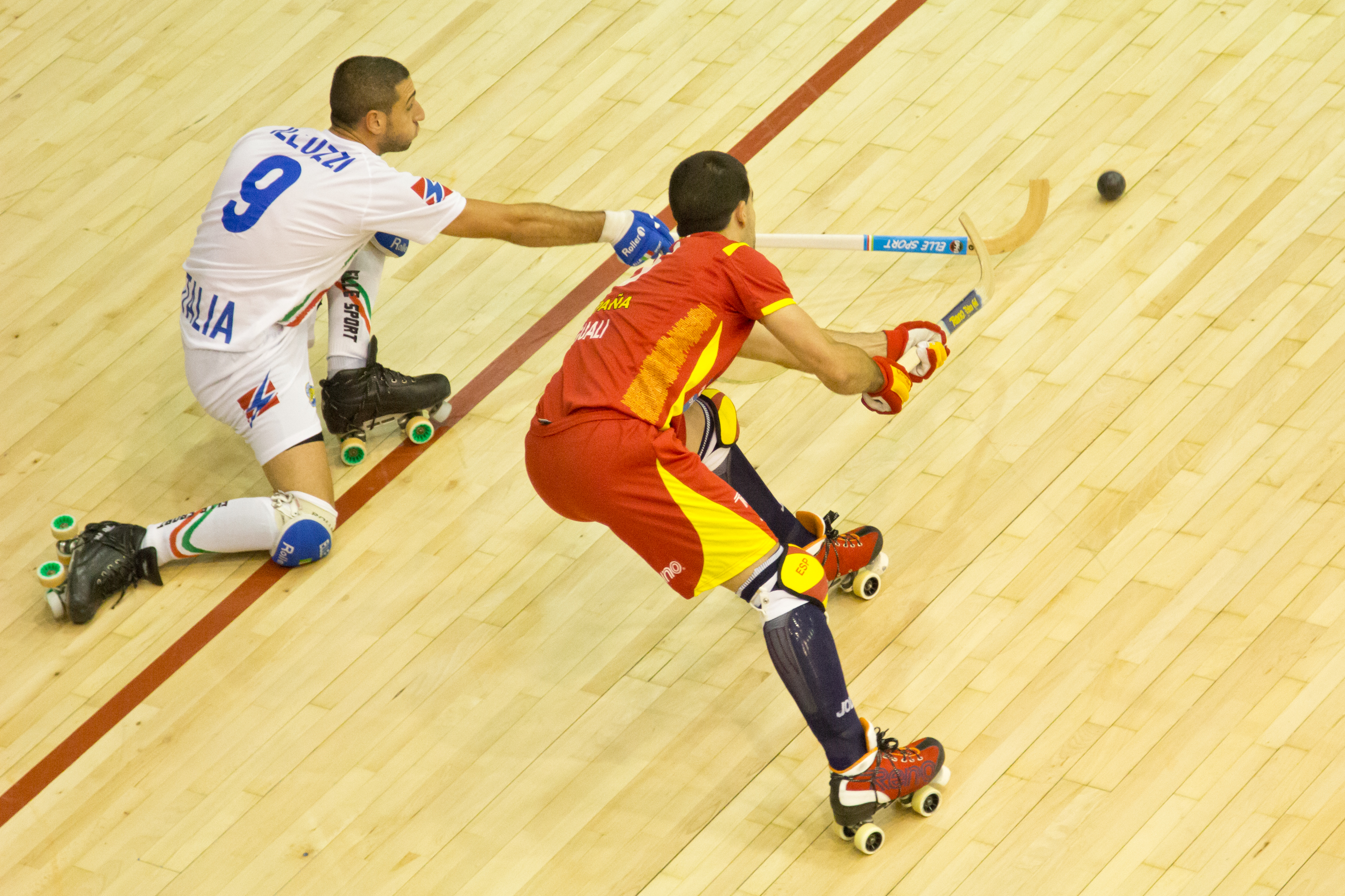 Marc Gual and Demonico Illuzzi struggling to possess the ball, Spain vs Italy, 2014 CERH European Championship.